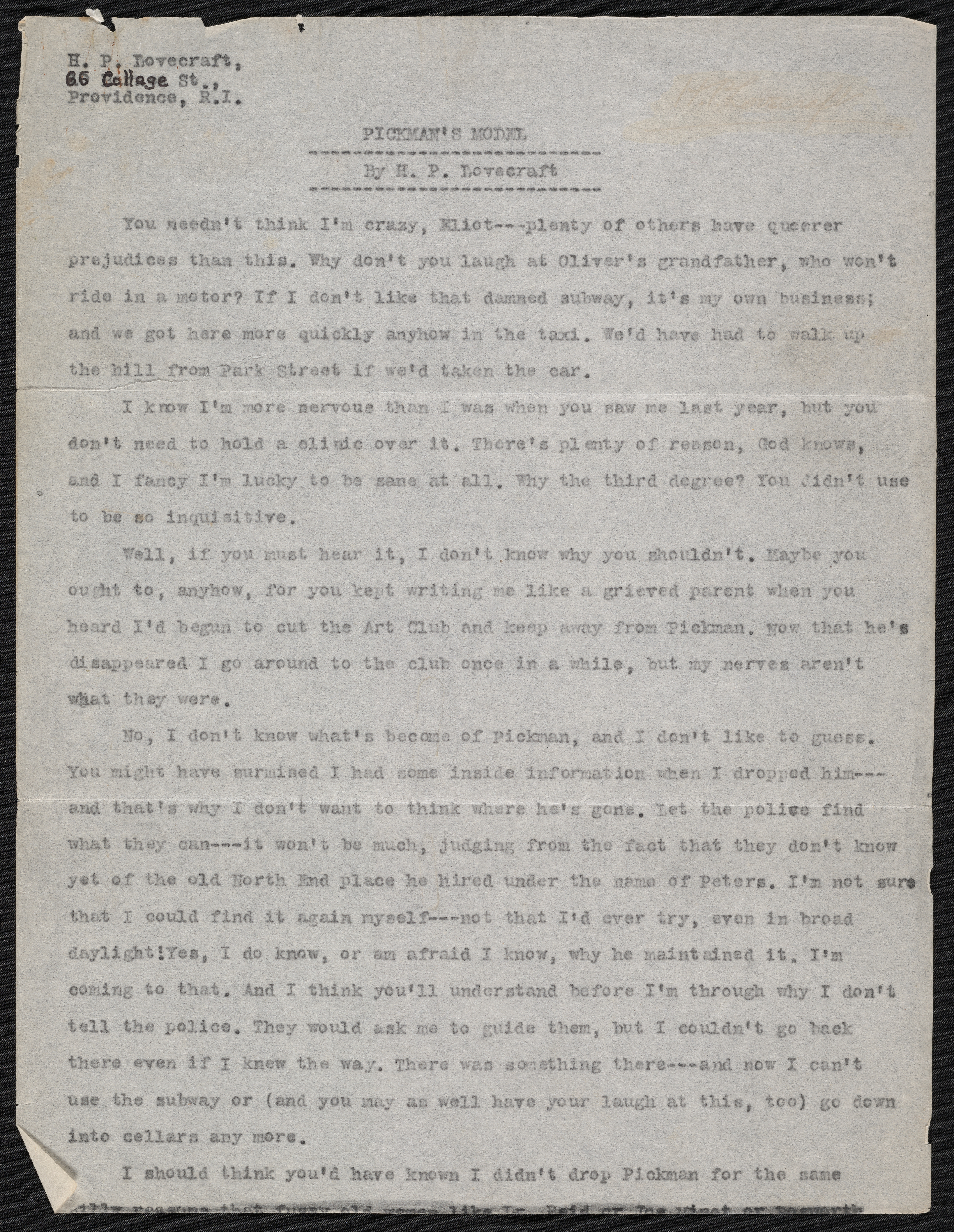 First page of the manuscript Pickman's Model.